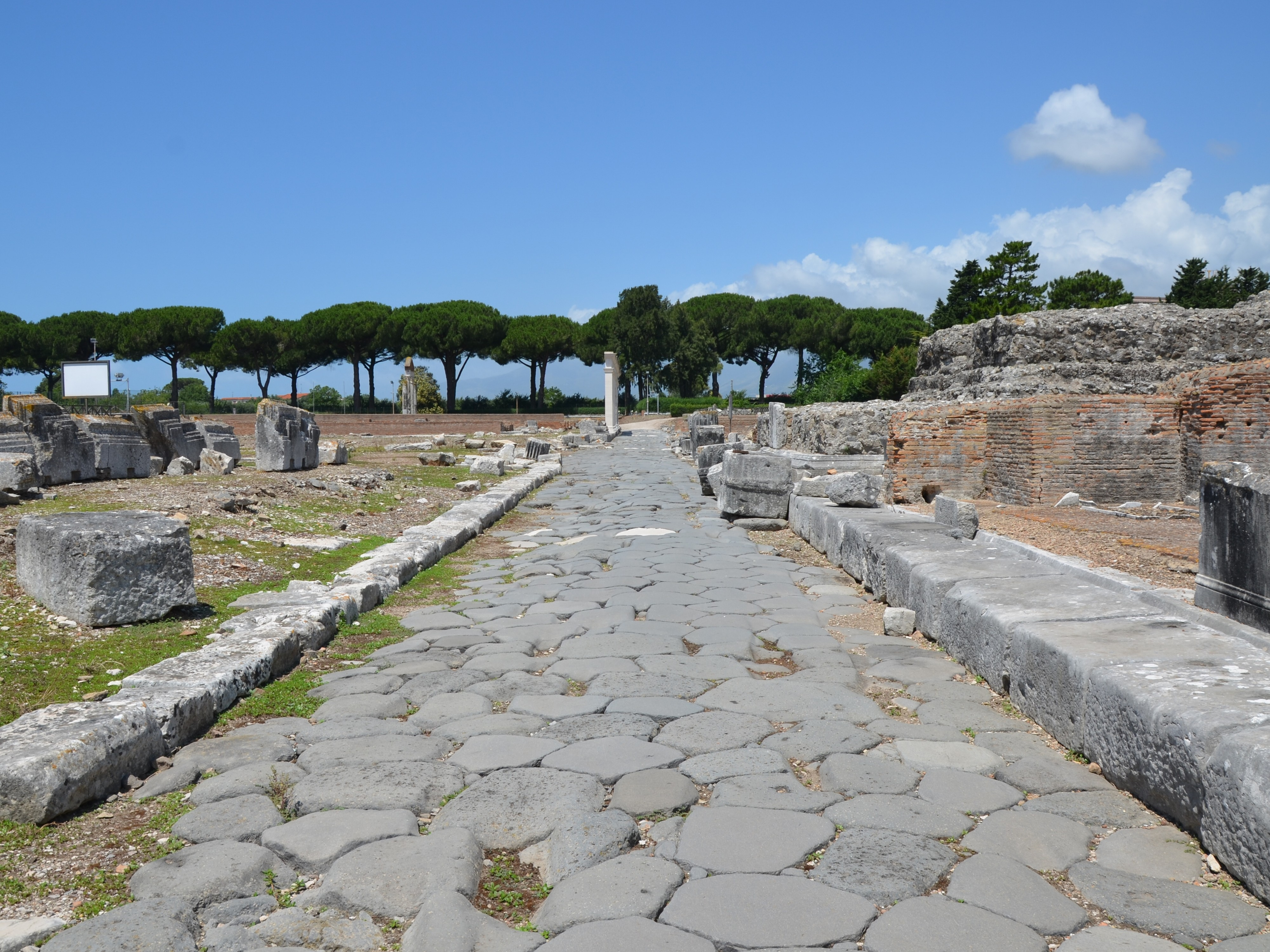 Minturnae, Minturno, Italy